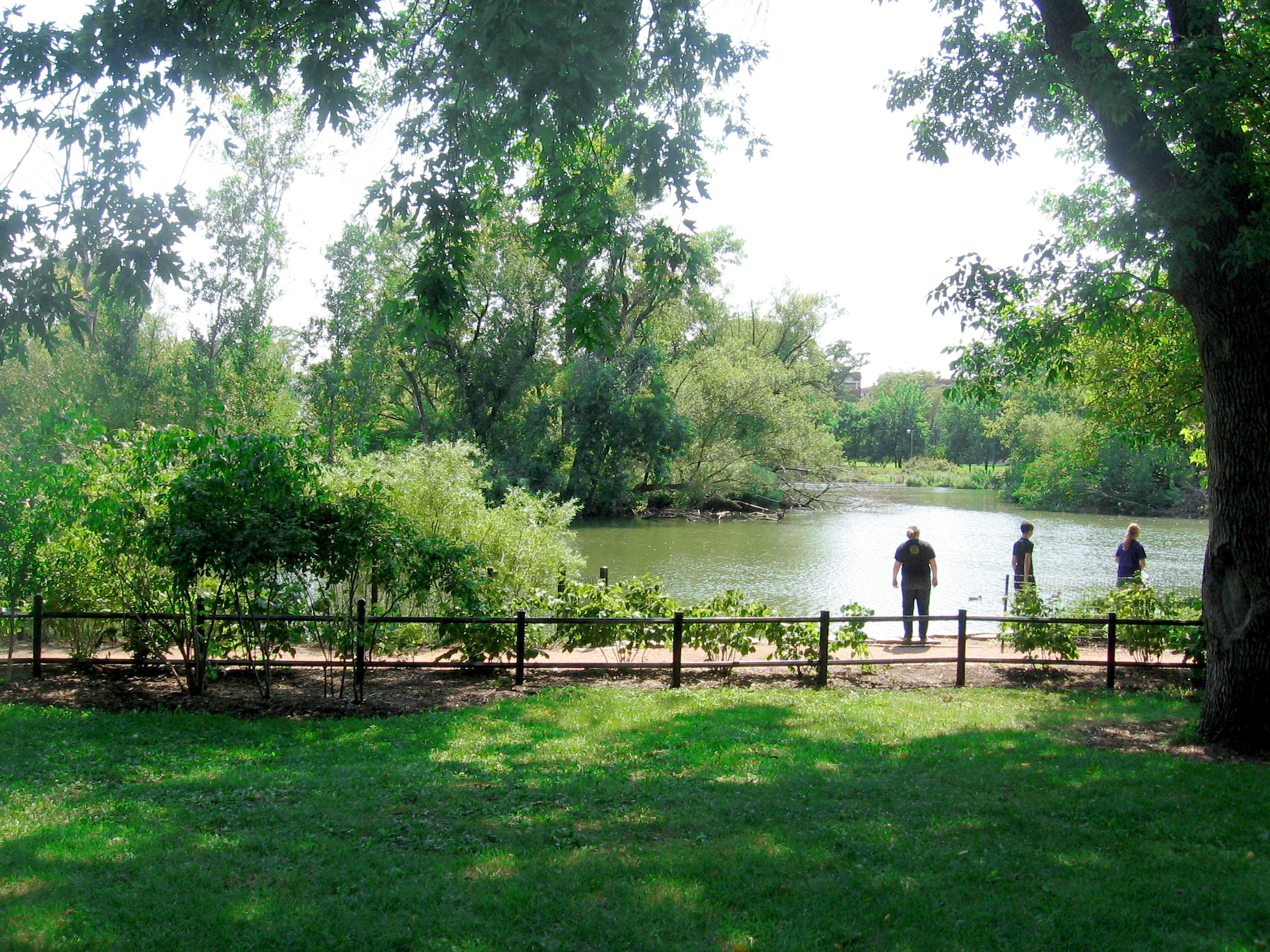 Residents feeding the ducks at the McKinley Park (Illinois) lagoon, looking south.